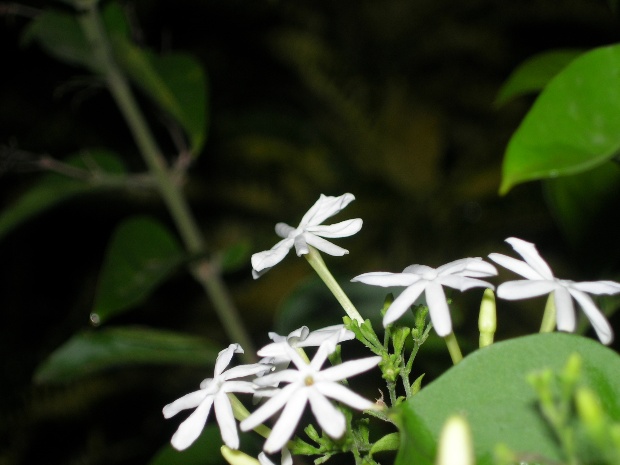 white jasmine. photo taken at night time.